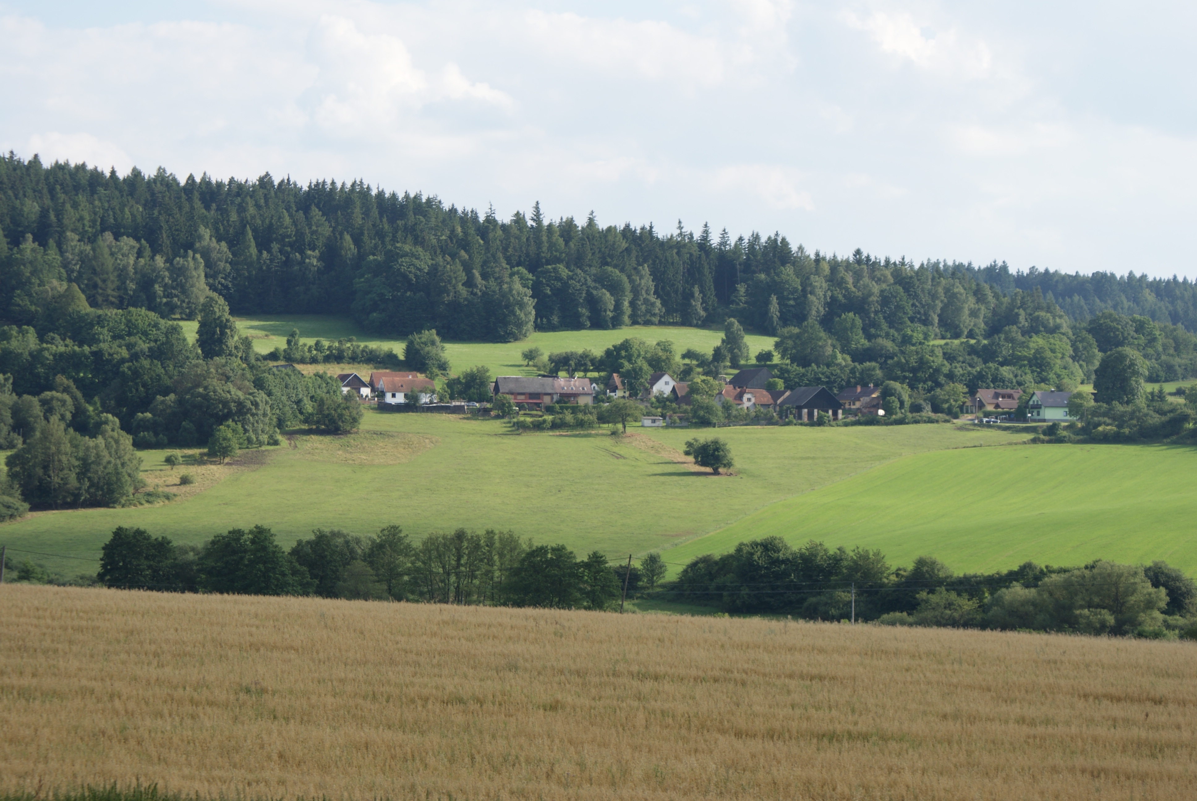 Hůrka (Předslav), a village in Klatovy District, Czech Rep., general view.